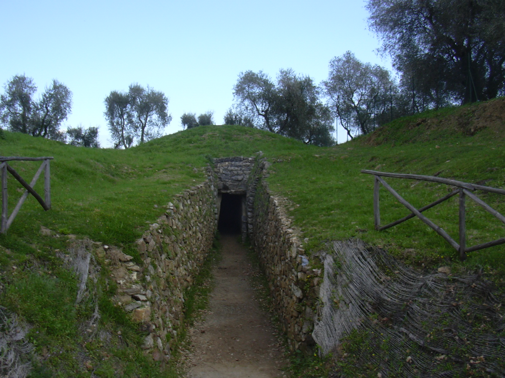 Etruscan tumulus ("Little Devil 2"), Vetulonia/Tuscany, Italy